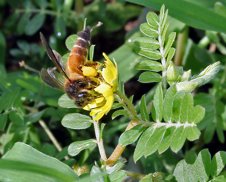 Gaint Honey Bee Apis dorsata on Tribulus terrestris- Puncture Vine, Caltrop, Yellow Vine, Goathead, Gokharu गोखरू (Hindi), Gokhru (Urdu), Gokhru kanta (Bengali), Cinnpalleru (Telugu), பல்லேரு முள்ளு palleru-mullu (Tamil), Nerinnii (Malayalam)- in Hyderabad, India.